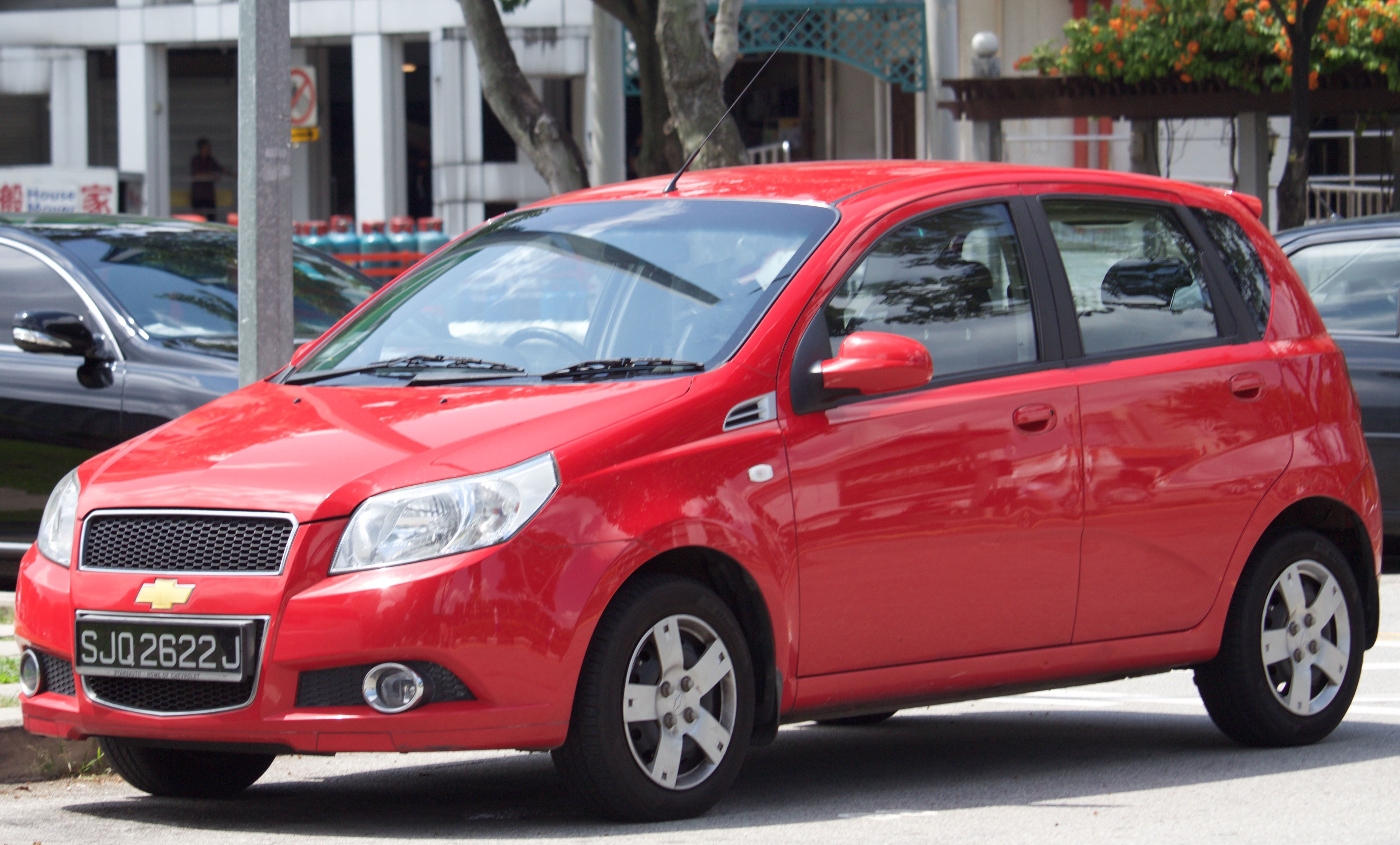 2009 Chevrolet Aveo (T250) 1.4 5-door hatchback. Photographed in Singapore.